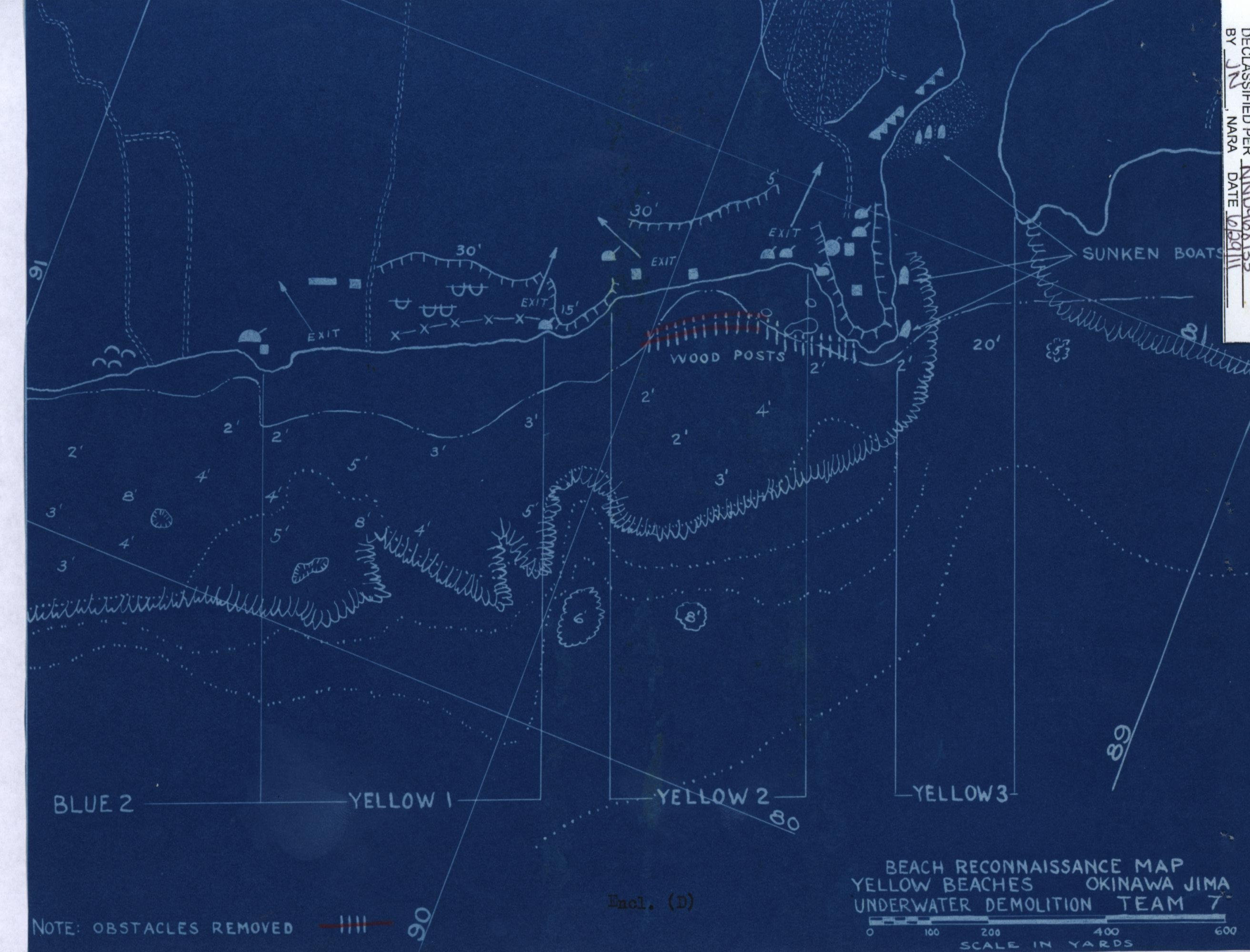 The map was drawn by members of UDT-7 prior to the invasion of Okinawa.